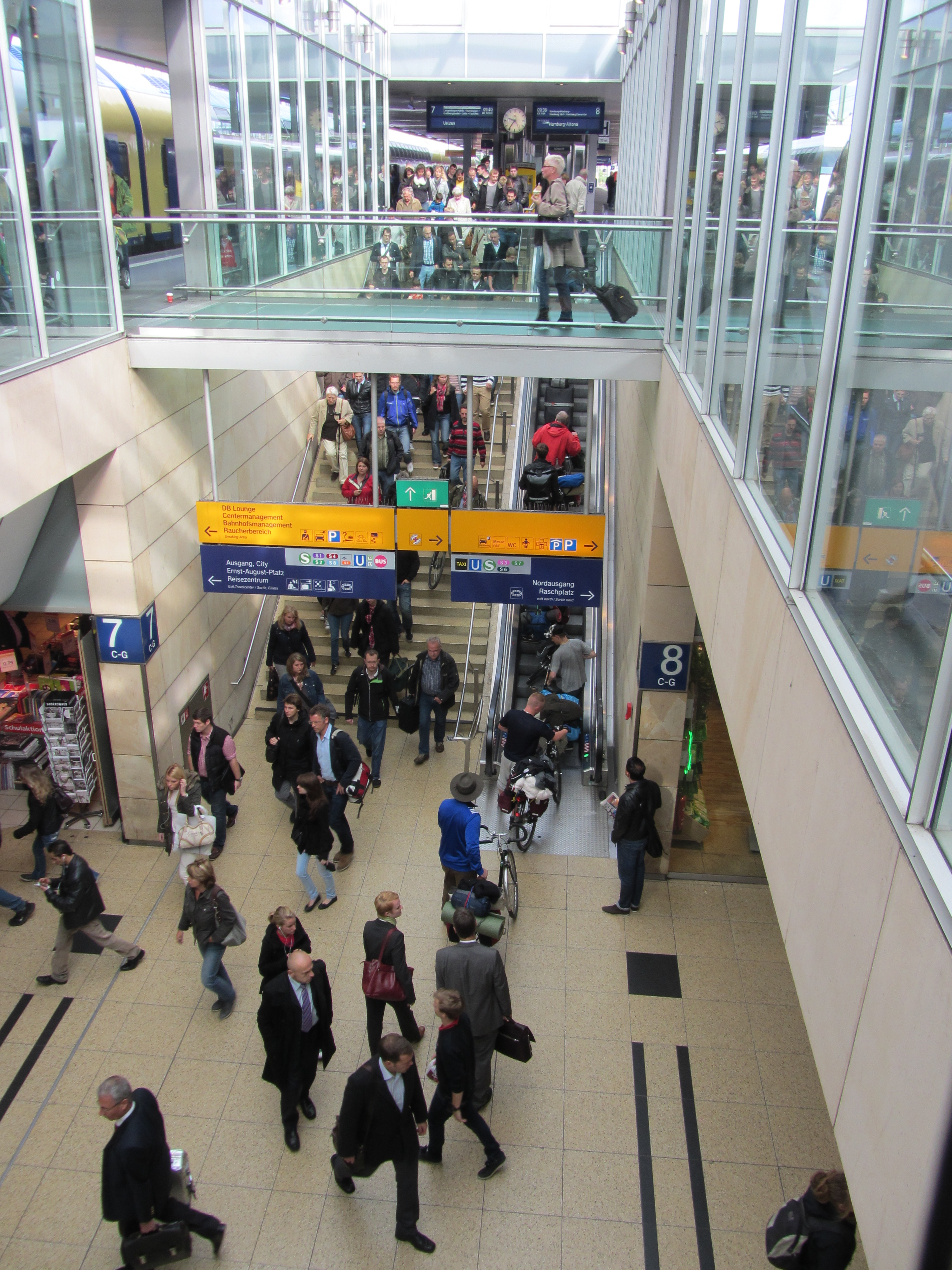 Hannover central station: stairs up to platform with tracks 7 and 8